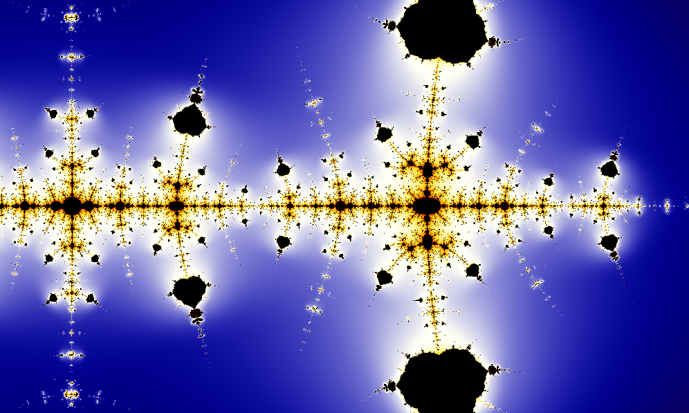 The Collatz map can be viewed as the restriction to the integers of the smooth real and complex map , which simplifies to . If the standard Collatz map defined above is optimized by replacing the relation 3n + 1 with the common substitute "shortcut" relation (3n + 1)/2, it can be viewed as the restriction to the integers of the smooth real and complex map , which simplifies to . Iterating the above optimized map in the complex plane produces the Collatz fractal.